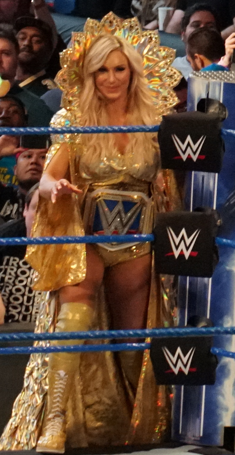 NOLA 2018 - WWE Smackdown Live - Arrival of The Iconic Duo The Iconic Duo makes her debut to Smackdown by beating up Charlotte Flair ( Deux semaines a Nola pour la ville et pour WWE Wrestlemania XXXIV Two weeks Nola for the city and for WWE Wrestlemania XXXIV )